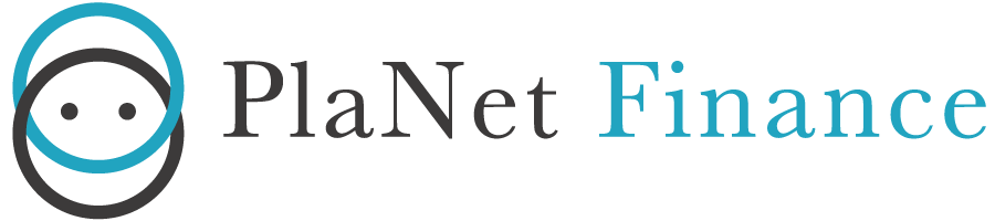 Logo of PlaNet Finance